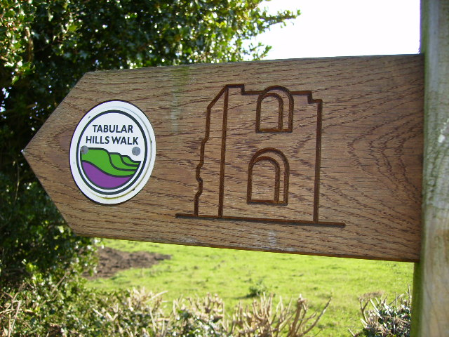 Tabular Hills link walk. The Tabular Hills walk links the two southerly ends of the Cleveland Way National Trail, enabling walkers to walk the complete perimeter if they have the stamina. The walk runs across the southern edge of The North York Moors National Park from Helmsley in the west to Scalby Mills on the north sea coast. The route measures 80km (50 miles) and wanders through sparsely settled countryside between Scalby and Levisham, then includes the villages of Newton-on-Rawcliffe, Cropton, Appleton-le-Moors, Hutton-le-Hole, Gillamoor, Fadmoor and Carlton. There is plenty of B&B accommodation on this linear route making it ideal as a 4 or 5 day walk.